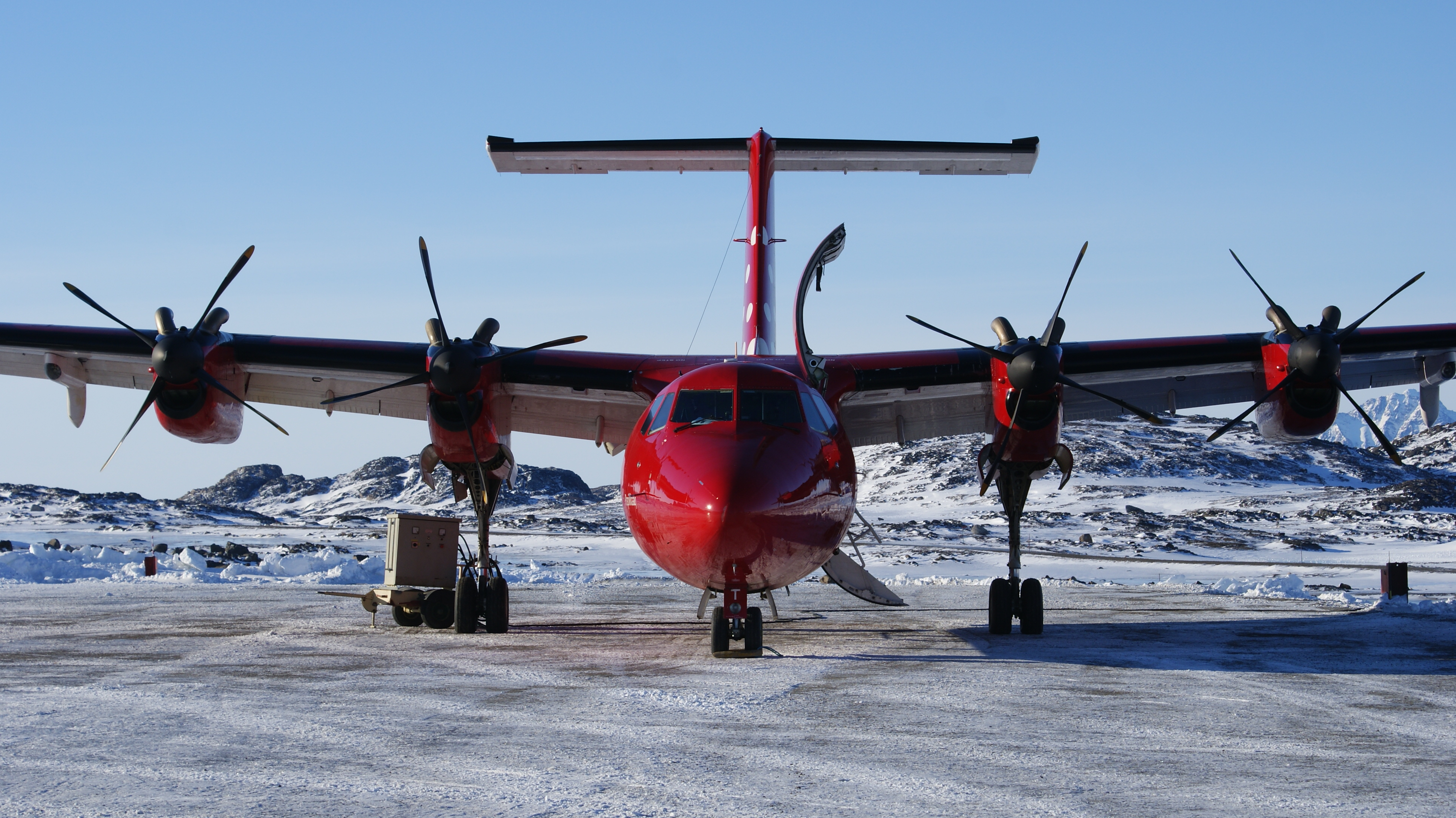 Front view of an Air Greenland de Havilland Canada Dash-7 "Papikkaaq" parked at Kulusuk Airport, Greenland.